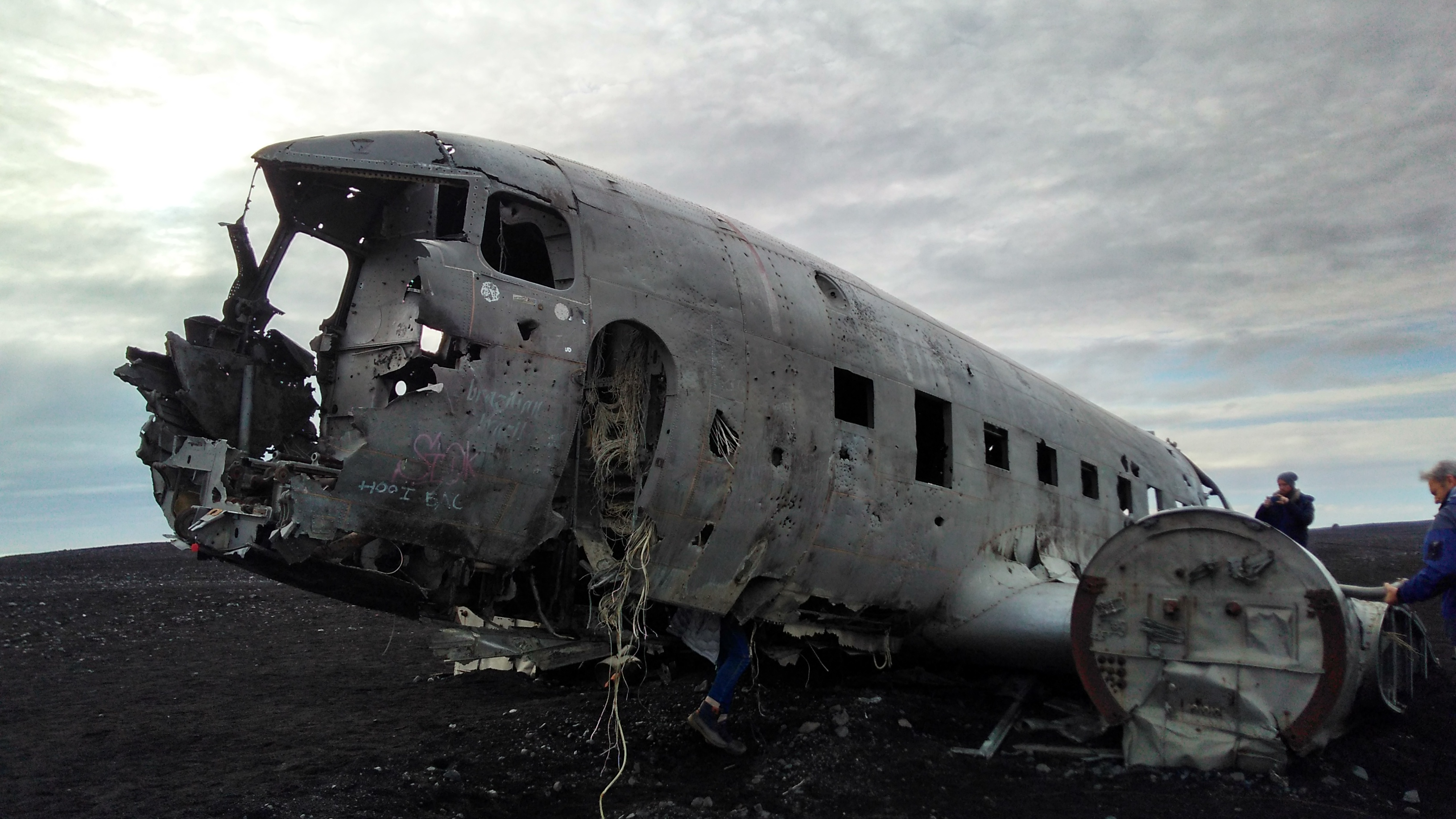 Sólheimasandur Plane Wreck, South Iceland